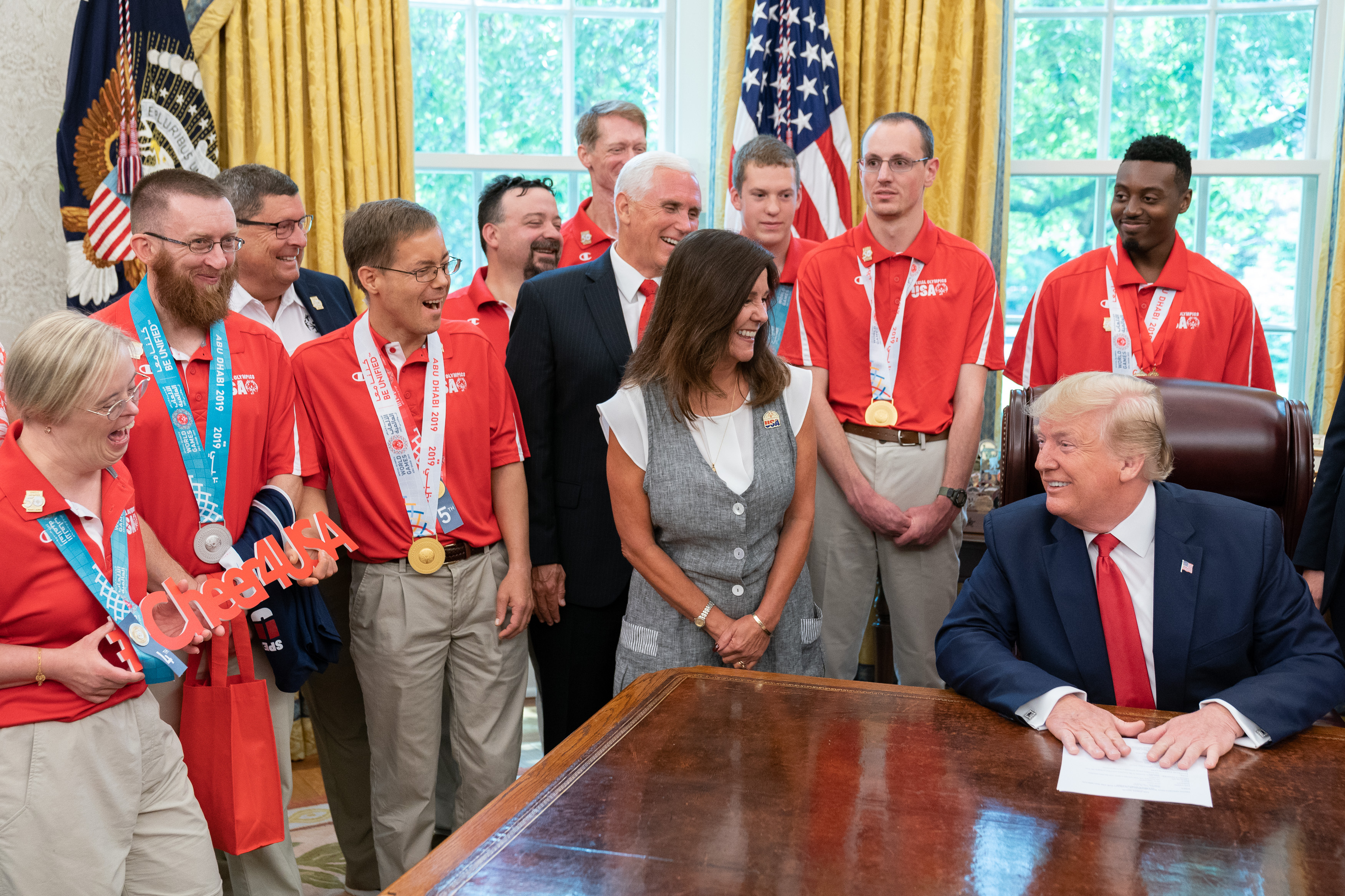 President Donald J. Trump and First Lady Melania Trump, joined by Vice President Mike Pence and Second Lady Karen Pence, participate in a photo opportunity Thursday, July 18, 2019, with members of Team USA for the 2019 Special Olympics World Games in the Oval Office of the White House. (Official White House Photo by Shealah Craighead)